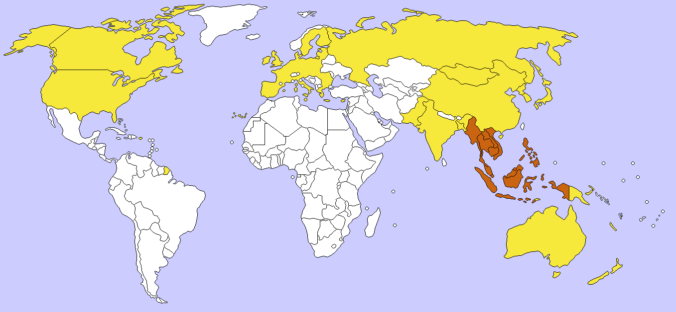 ASEAN in orange and ASEAN Regional Forum participants in yellow. The European Union is shown without internal borders because it participates as a single entity in the forum. Created by User:Aris Katsaris modifying Image:BlankMap-World-v4-colored.png. Aris Katsaris 22:07, 20 March 2006 (UTC)